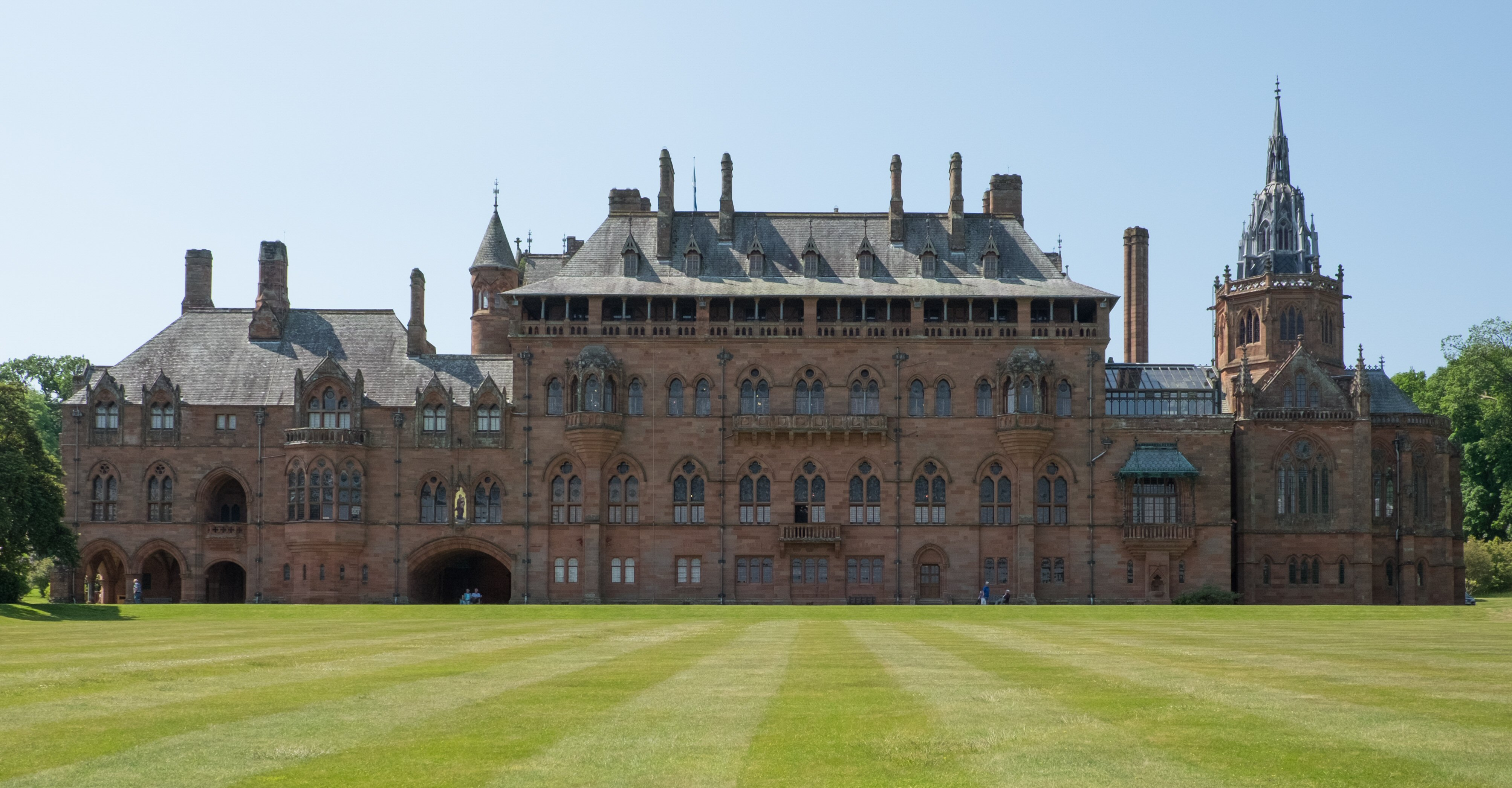 Mount Stuart House, Isle of Bute - east view